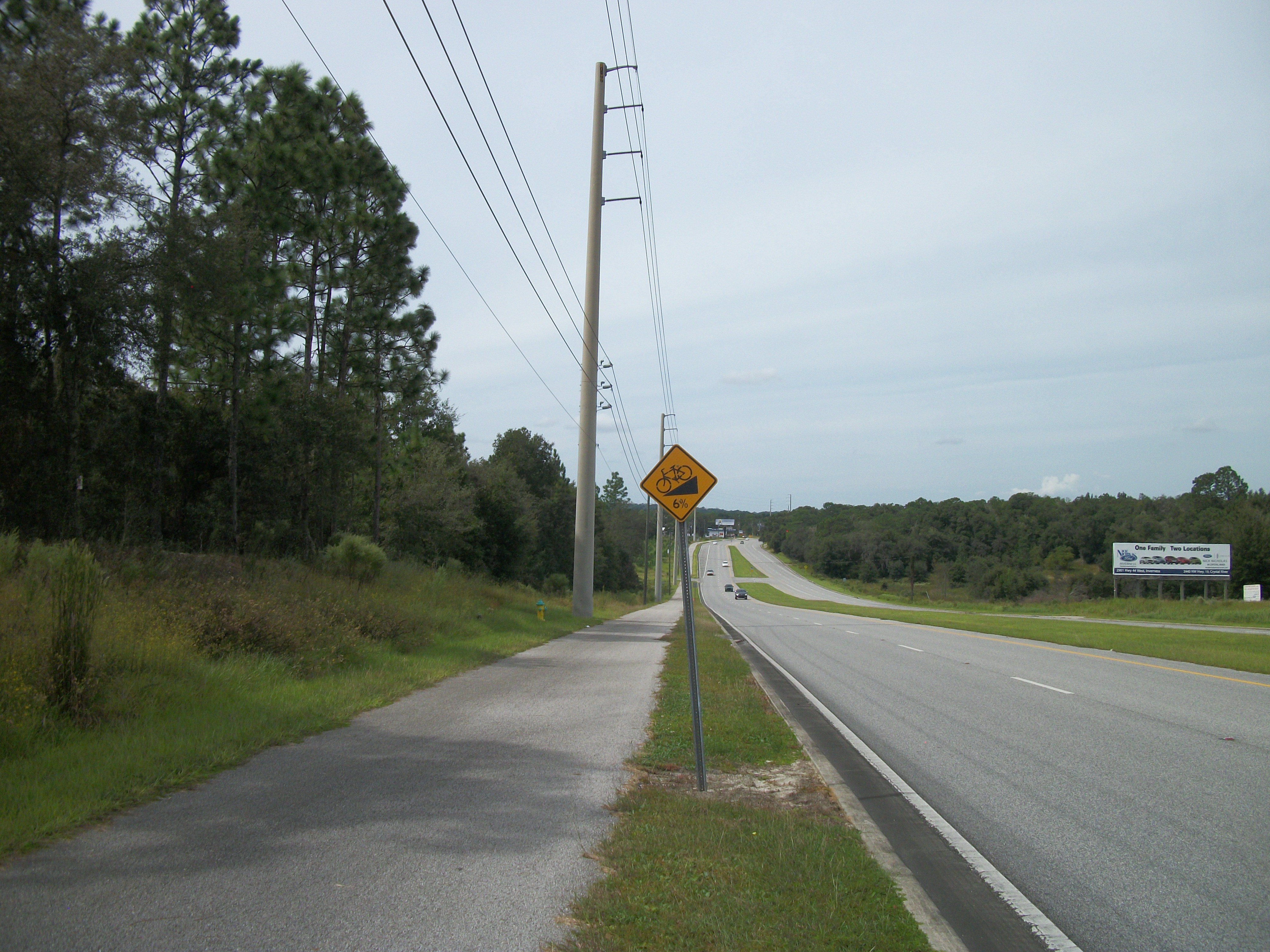 Westbound view of a bike path along the south side of Citrus County Road 486 (Norvelle Bryant Highway) at a hill with a six percent grade between Citrus Hills and Hernando, Florida. Fun to ride down, unless there's a car or truck at the intersection with the private farm road at the bottom of the hill.